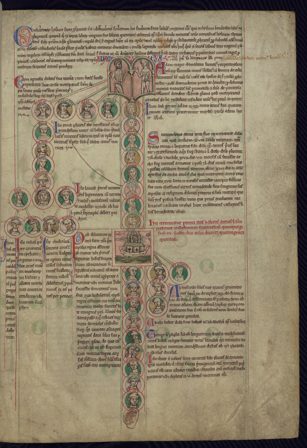 First page of Peter of Poitier's Compendium historiae in an English manuscript, 13th century.